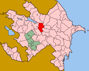 Map of Azerbaijan showing Agdash (Ağdaş) rayon.